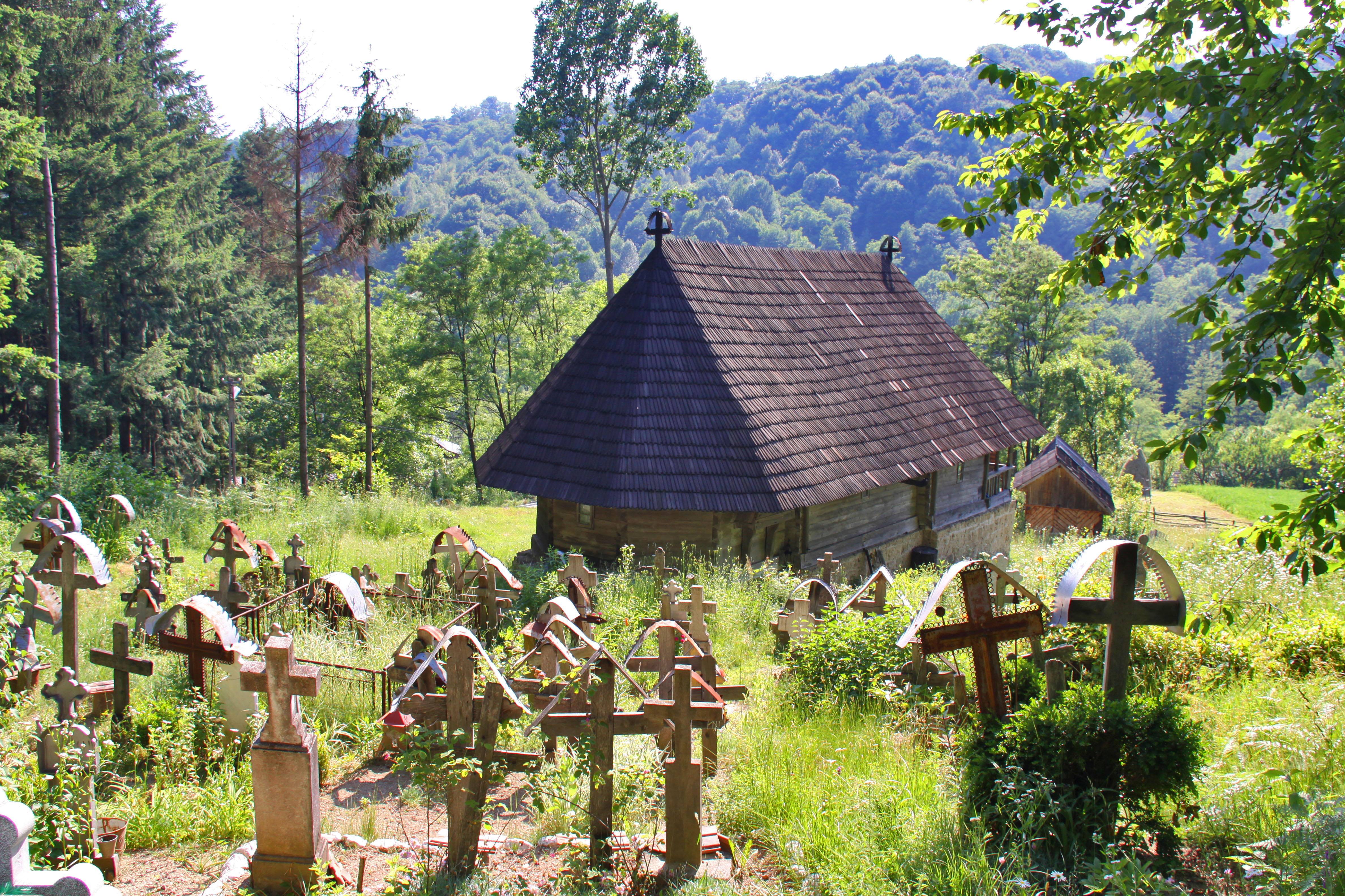 Grămeşti, Pietreni, Vâlcea county, Romania: the wooden church, South-East.